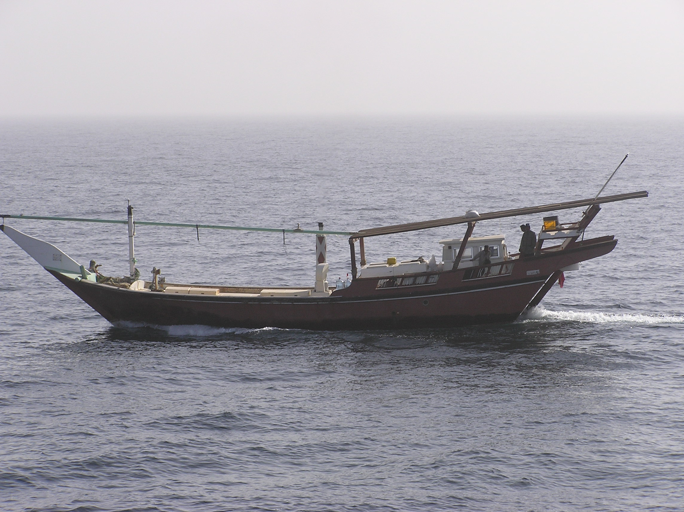 Somewhere off Bahrain